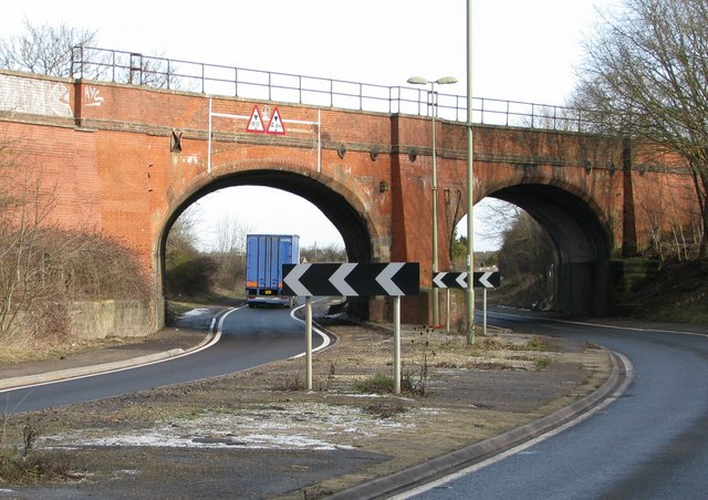 Acorn Bridge, Bourton, Vale of White Horse, England. The bridge carries the Great Western Main Line over the A420 main road. The arch on the right originally spanned the now abandoned Wilts and Berks Canal